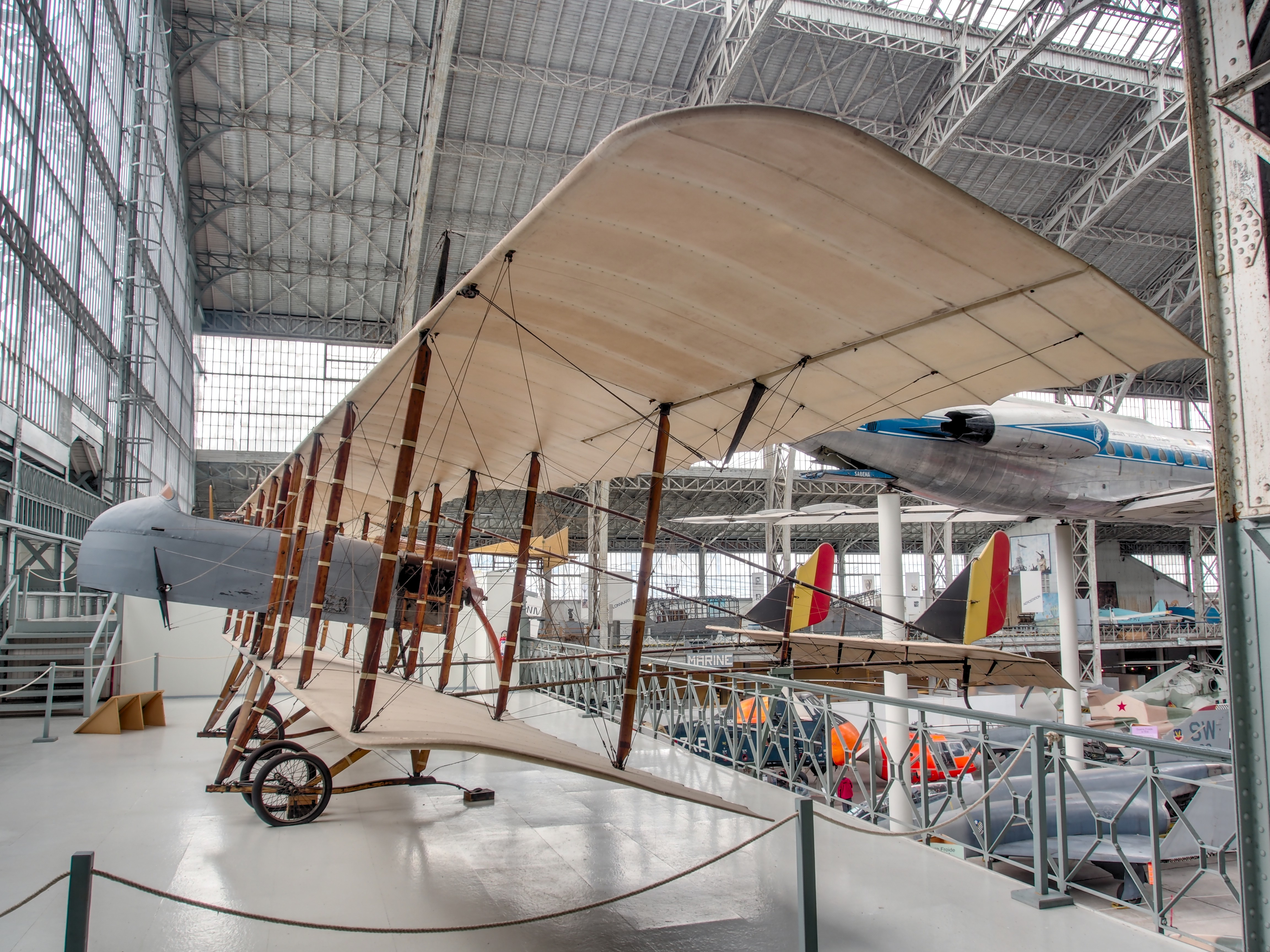 Photographed in the Royal Military Museum Brussels, Belgium.